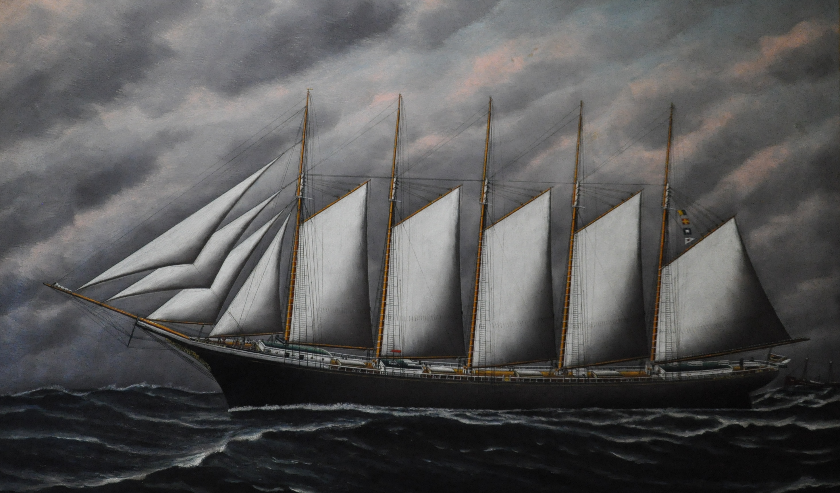 CORA F. CRESSEY, painted by Solon Badger; on display in the Maine Maritime Museum, Bath, Maine.